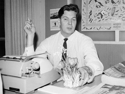 Photograph of the Finnish writer Mauri Sariola (1924–1985).